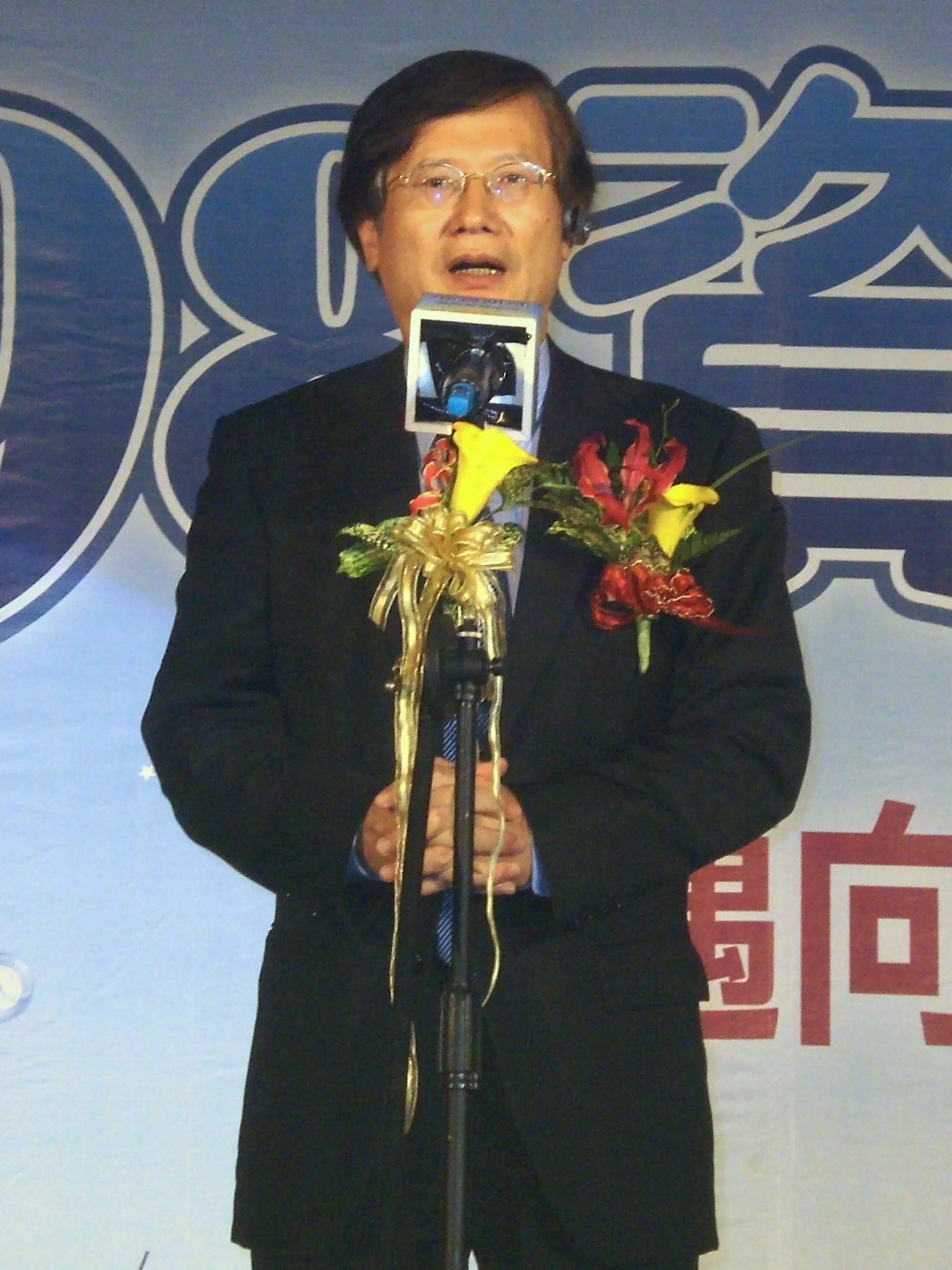 2009 Taipei IT Month: Raff Liu, Executive Director of IT Month.